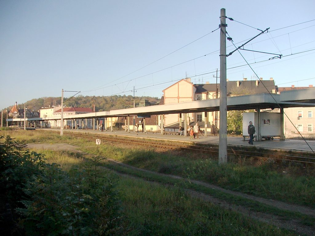 Train station Kłodzko Miasto (Lower Silesian Voivodeship, Poland)